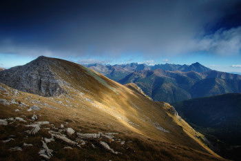 Tatra Mountains - Czerwone Wierchy